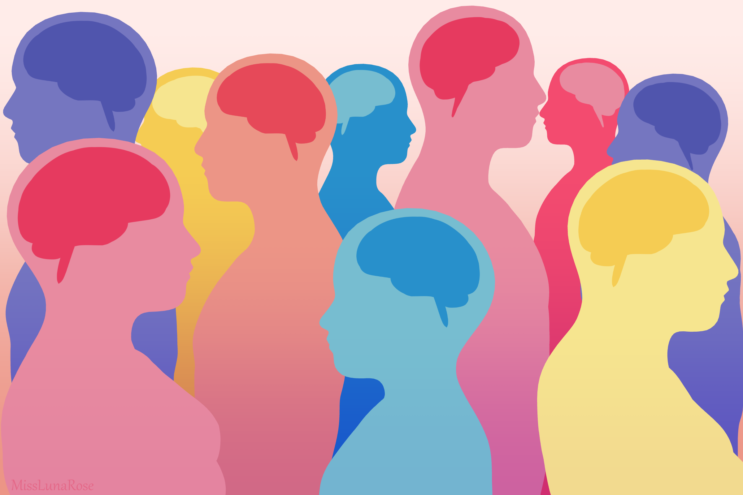 Everyone's brain works a little differently. According to the neurodiversity paradigm, this isn't necessarily a bad thing. Society can benefit from the strengths and accommodate the weaknesses of each person.